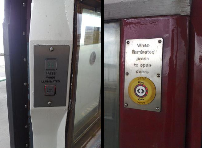 Composite image showing interior (l) and exterior (r) retro-fitted Door Open/Close buttons on British Rail Class 483 stock.